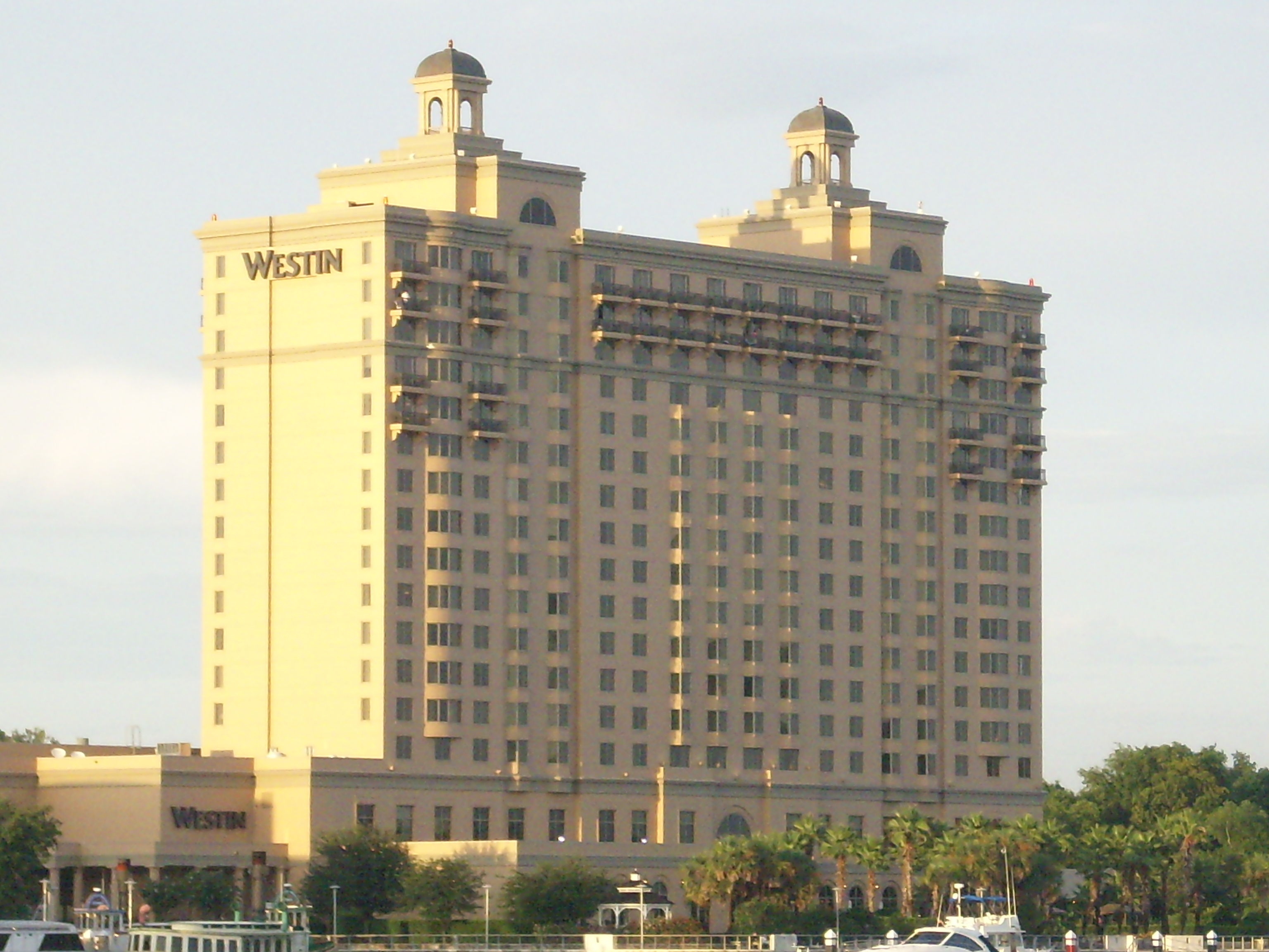 The Westin Hotel in Savannah, Georgia (USA) as seen from River Street during the early evening.